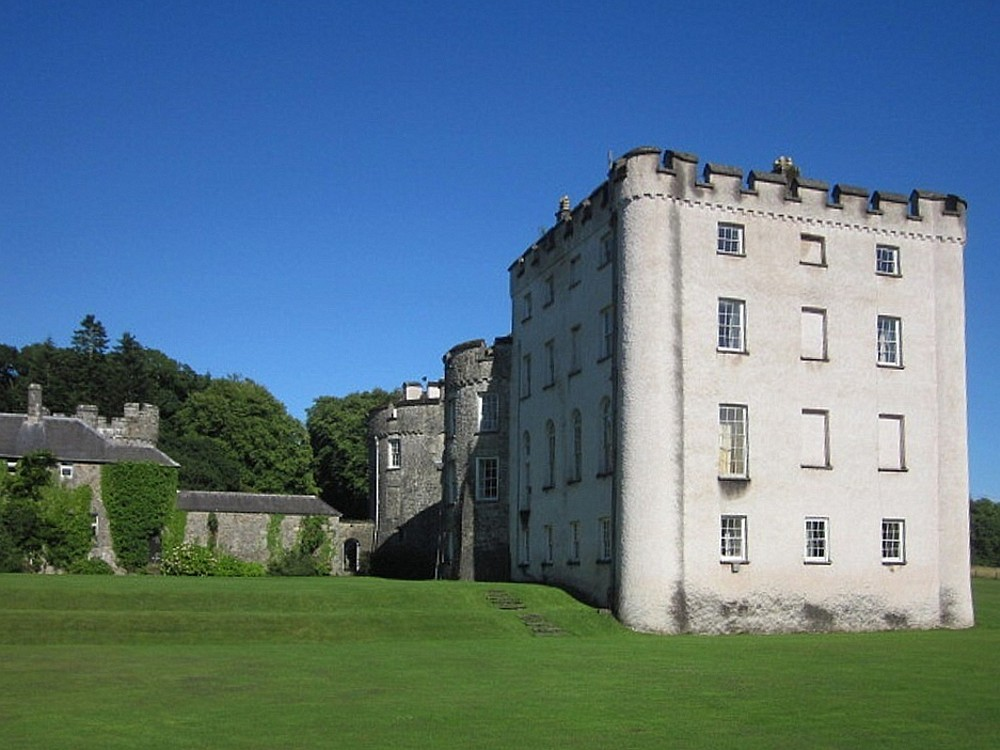 Picton Castle Pembrokeshire UK